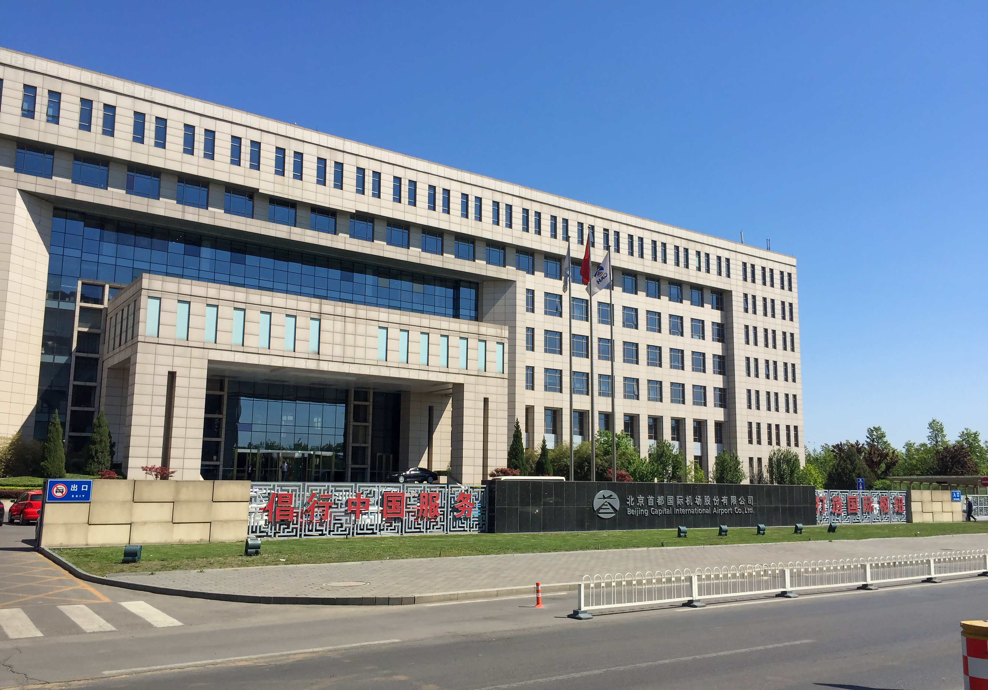 China Service Mansion - this is what we view it from the south.